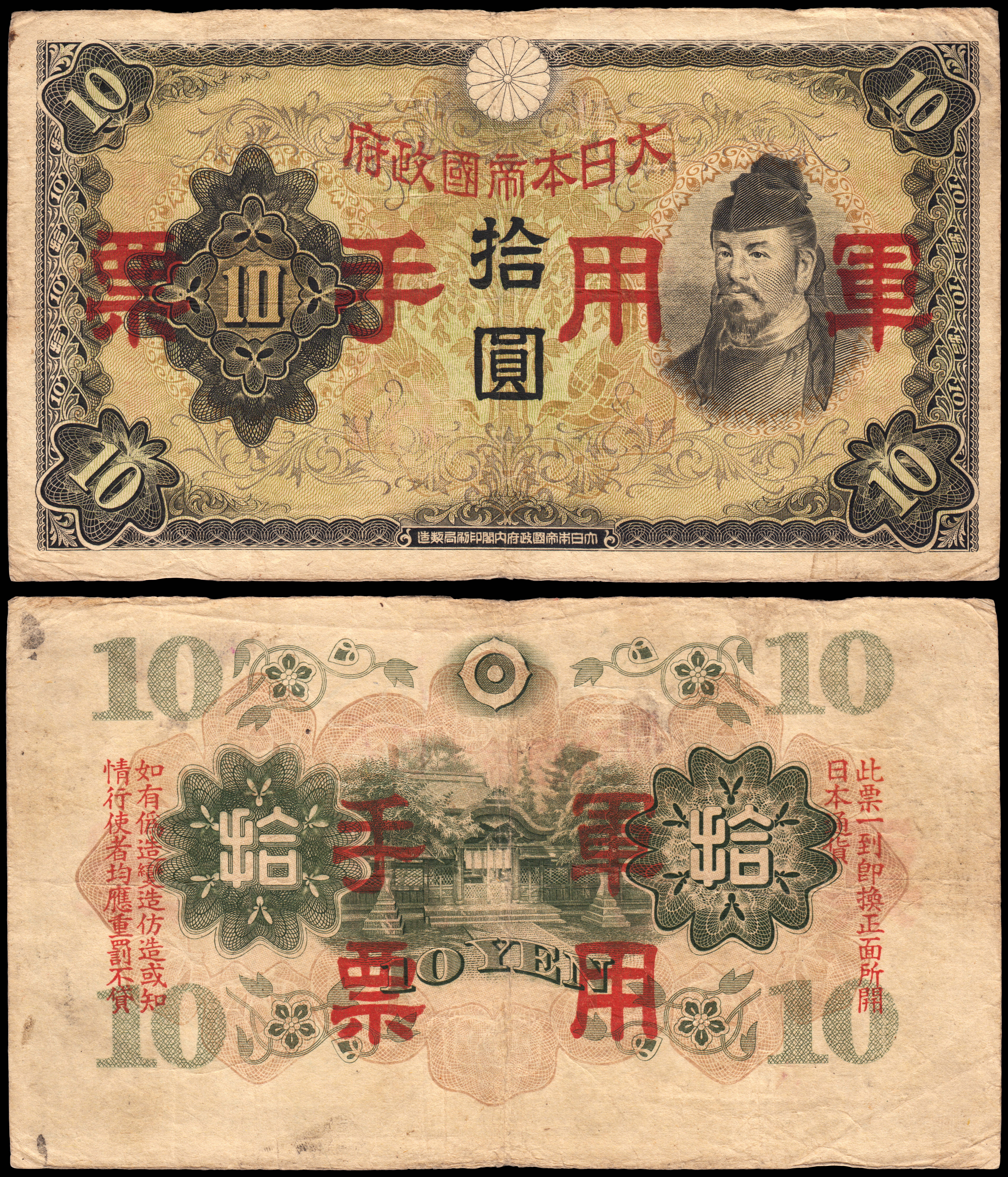 10 Yen military banknote of the 1938 series.